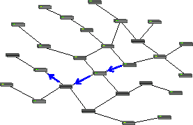 A unicast forwarding pattern in a computer network 26 Sep 2005